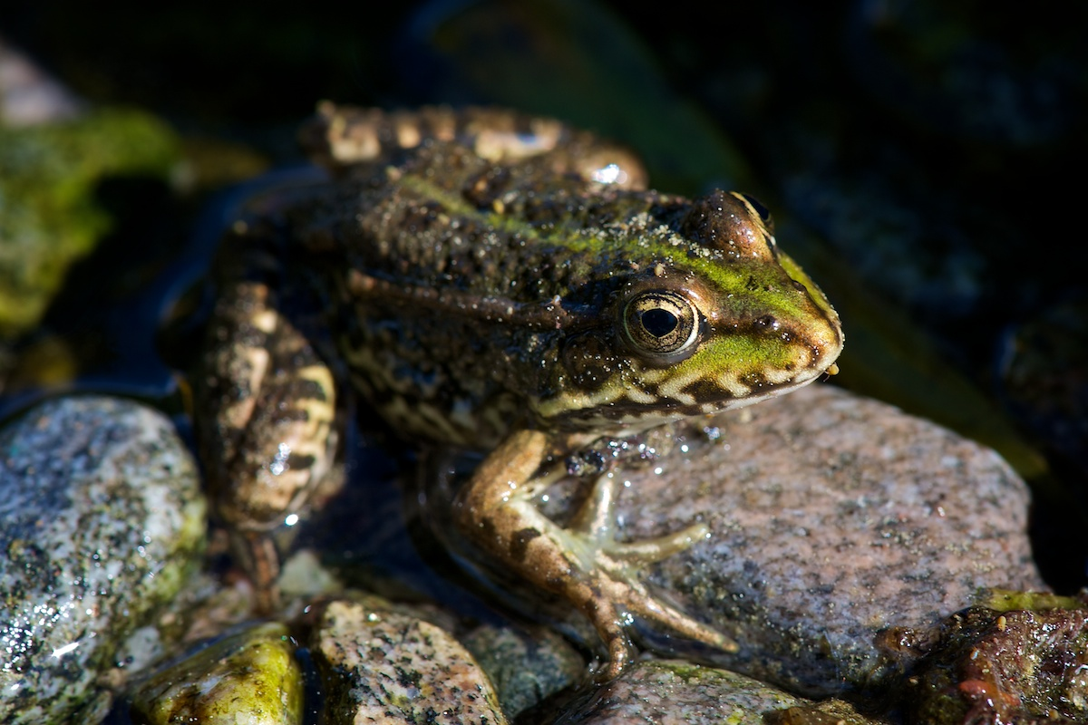 Marsh Frog